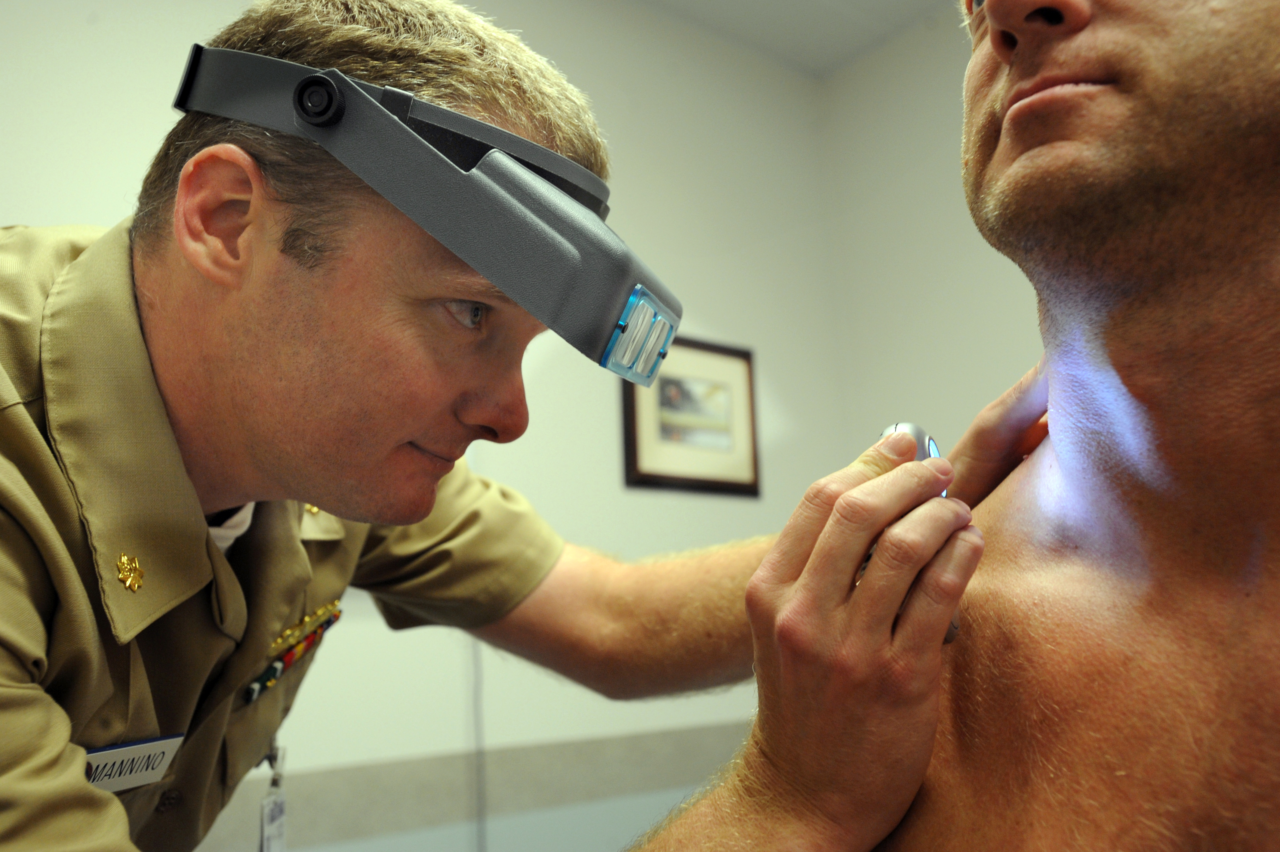 CORONADO, Calif. (Oct. 23, 2008) Lt. Cmdr. Stephen Mannino examines a Sailor using a dermatascope and magnifying loops during a skin cancer screening at Naval Special Warfare medical clinic at Naval Amphibious Base, Coronado. More than 70 Sailors in special warfare commands were screened for skin cancer during the event. (U.S. Navy photo by Mass Communication Specialist 2nd Class Dominique M. Lasco/Released)